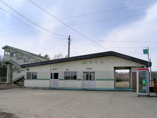 Abira Station in Muroran Main Line, Japan